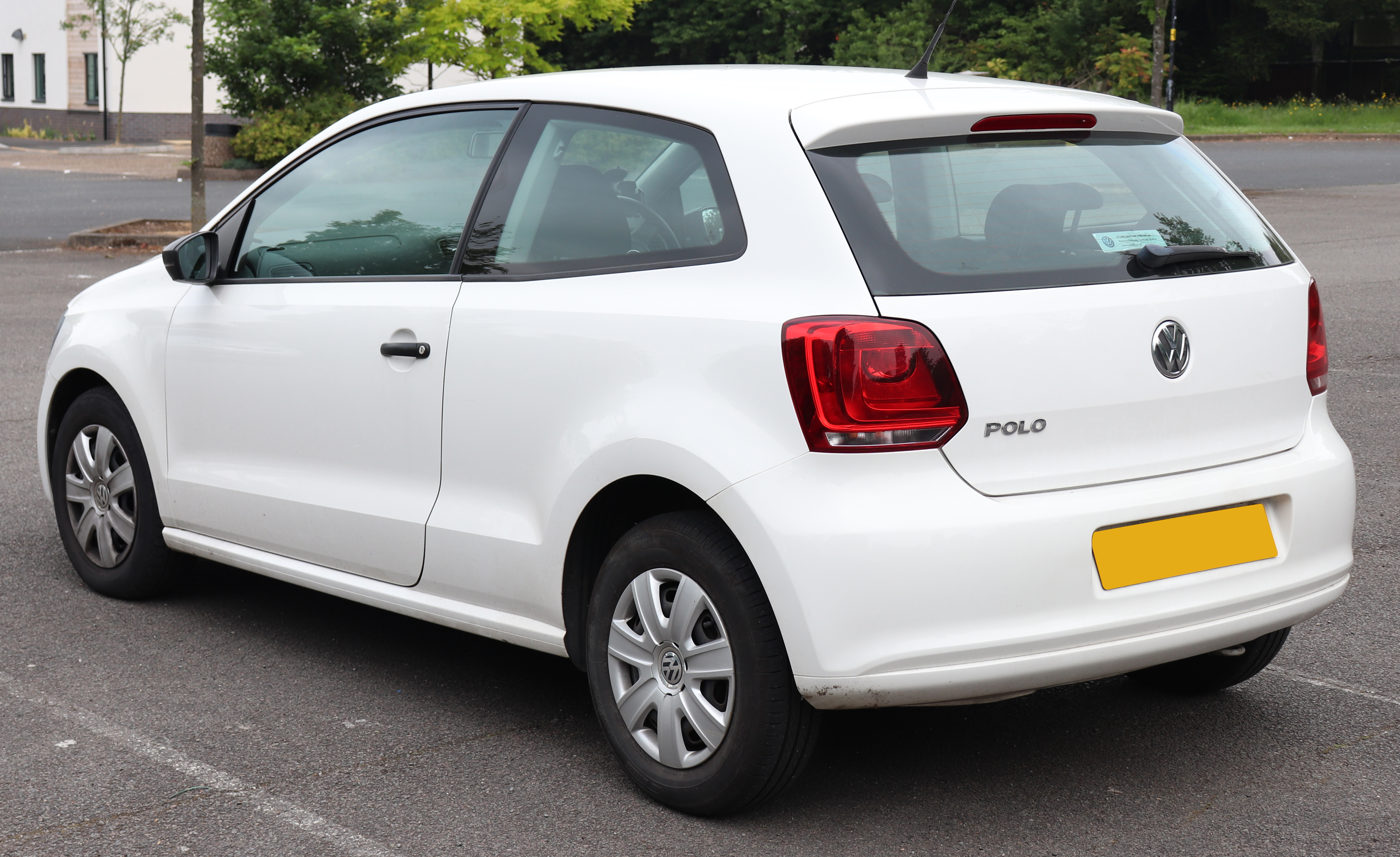 2011 Volkswagen Polo S 60 1.2 Rear Taken in Leamington Spa